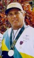 Depicted person: Marcelo Ferreira